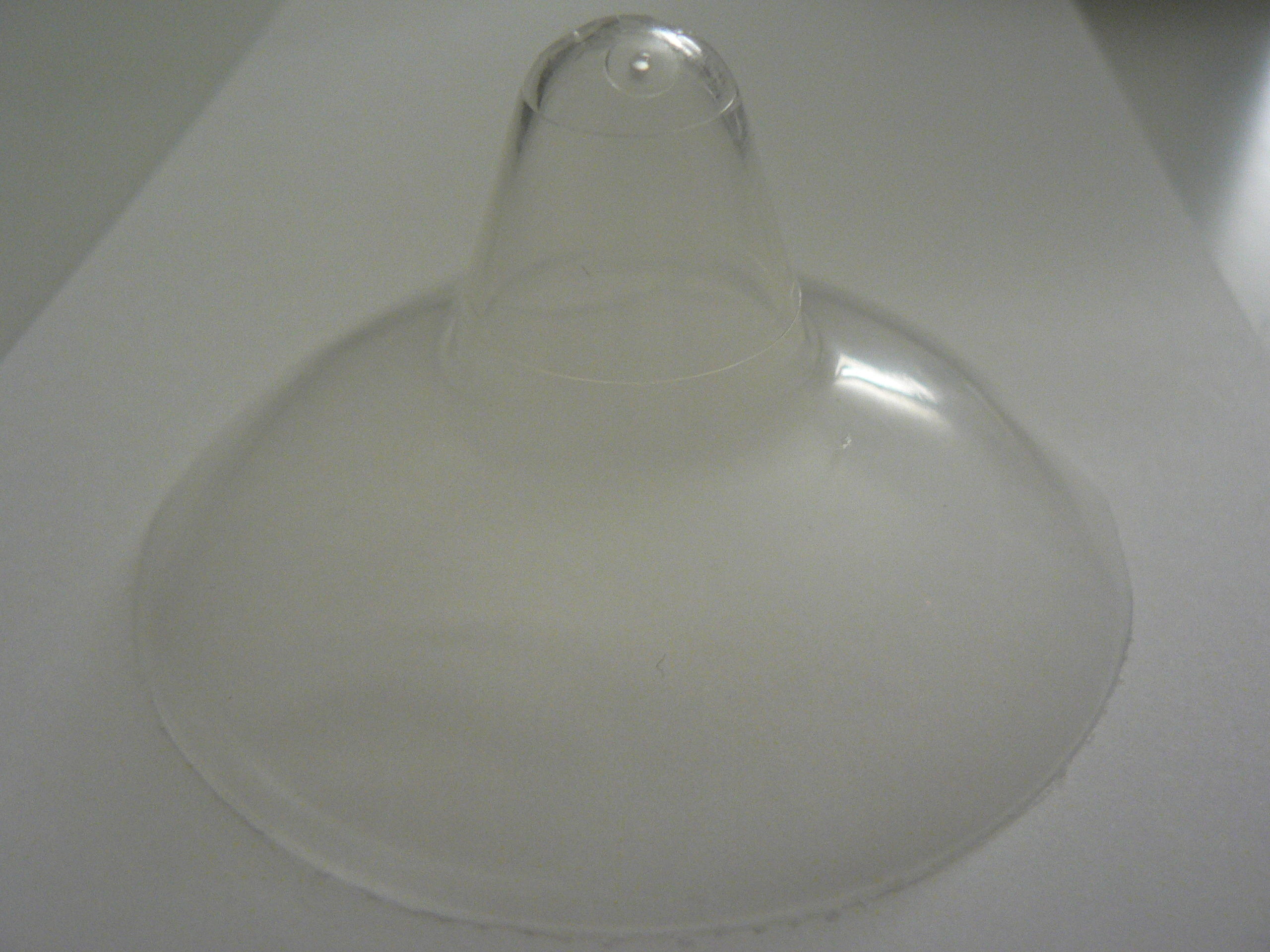 nipple shield (shape after application)